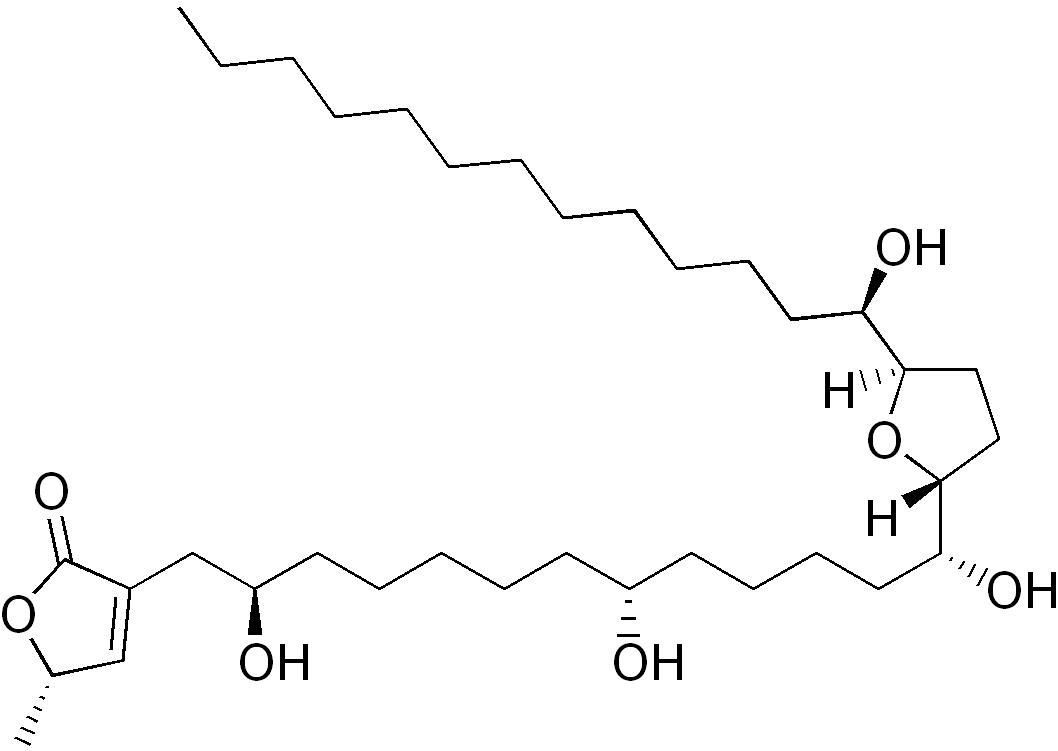 chemical structure of annonacin